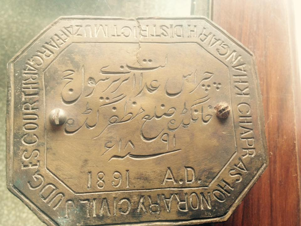 Plate of Court